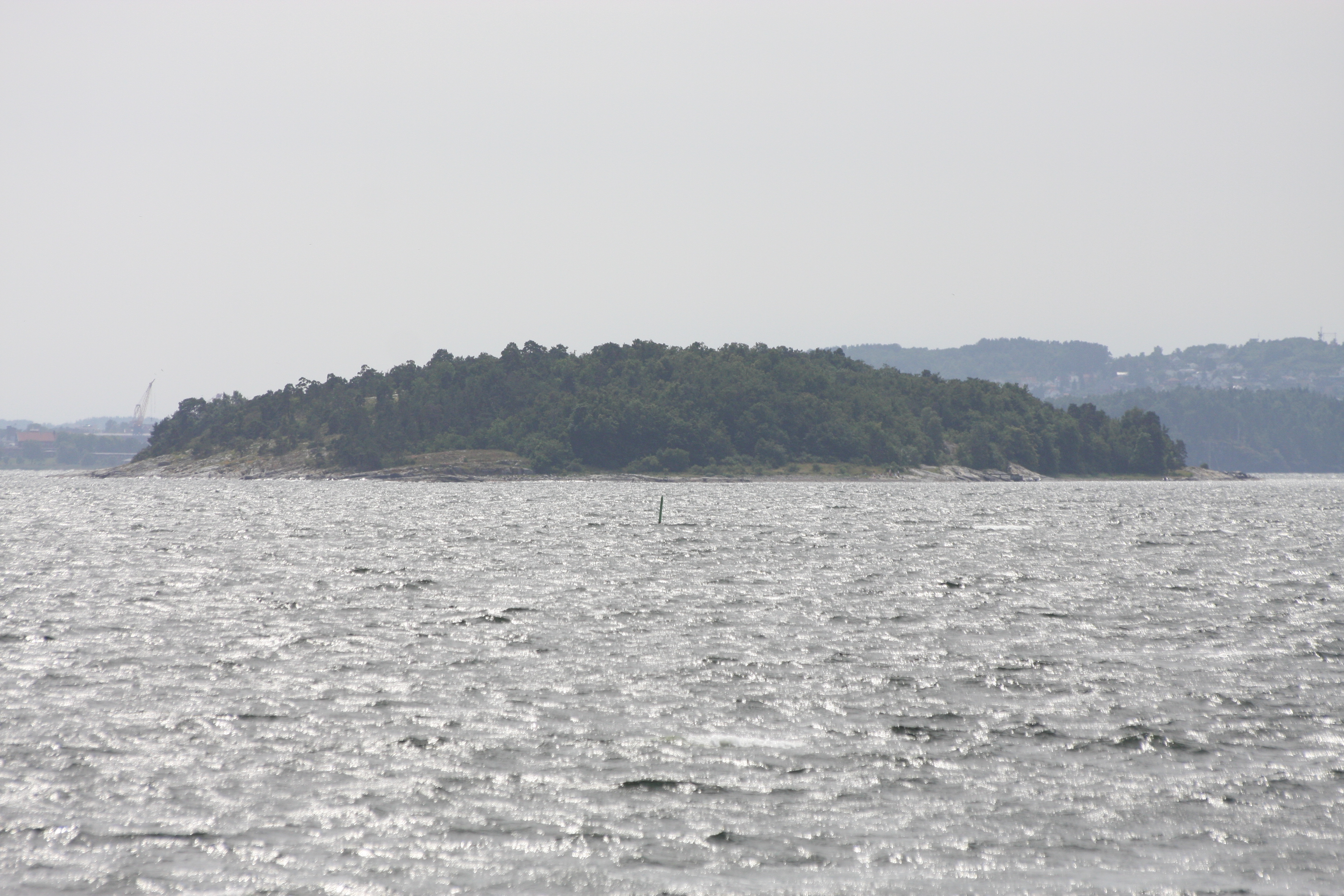 Island of Mölen, with city Horten in the background. Norway.